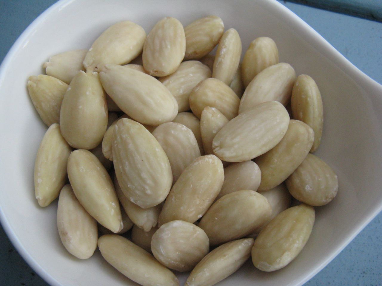 Blanched almonds. Gaelg: Almonyn giallit.